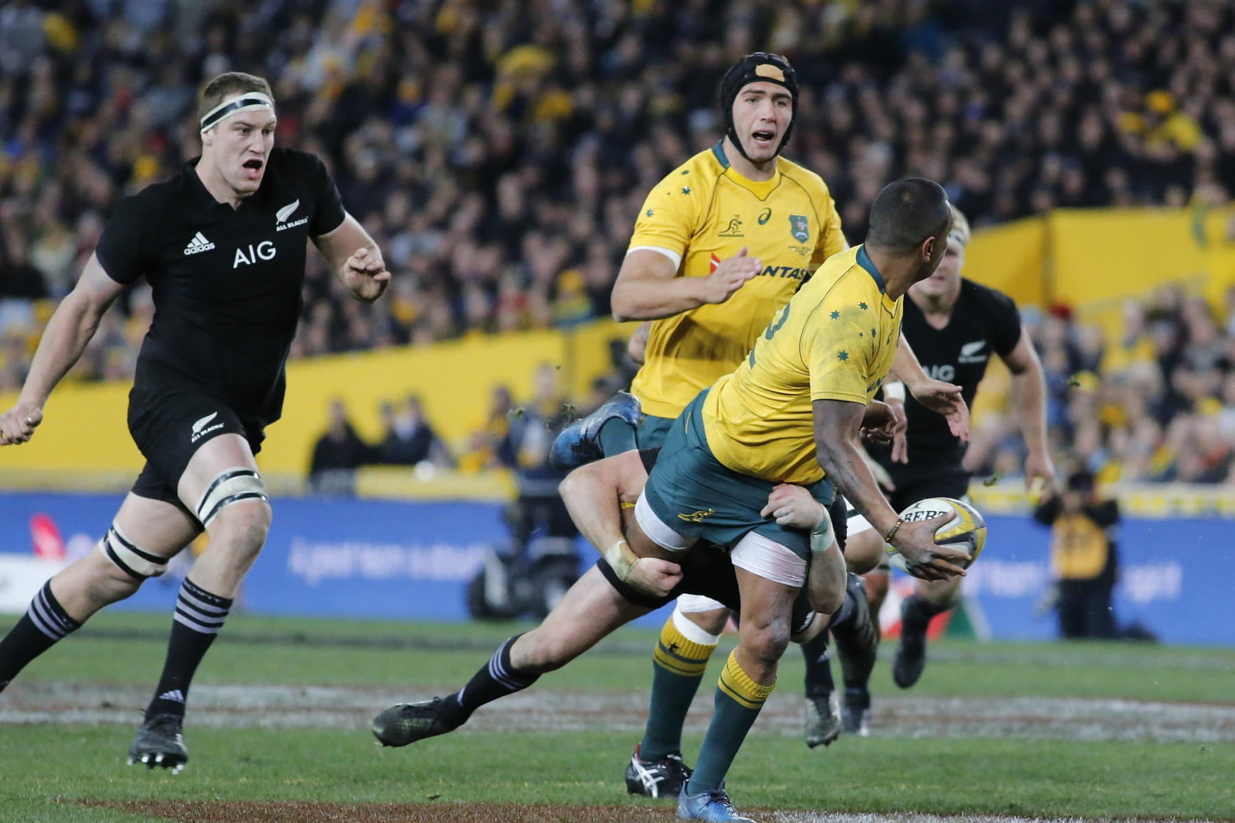 2017.08.19.21.16.55-Kurtley Beale run-0003 2017 Rugby Championship, Bledisloe 1, Australia vs New Zealand, 19th August, ANZ Stadium, Sydney